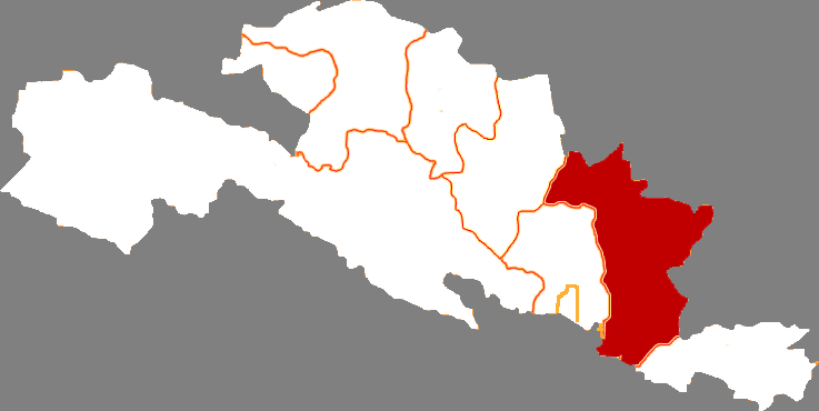 Location of Shandan County in Zhangye city, China